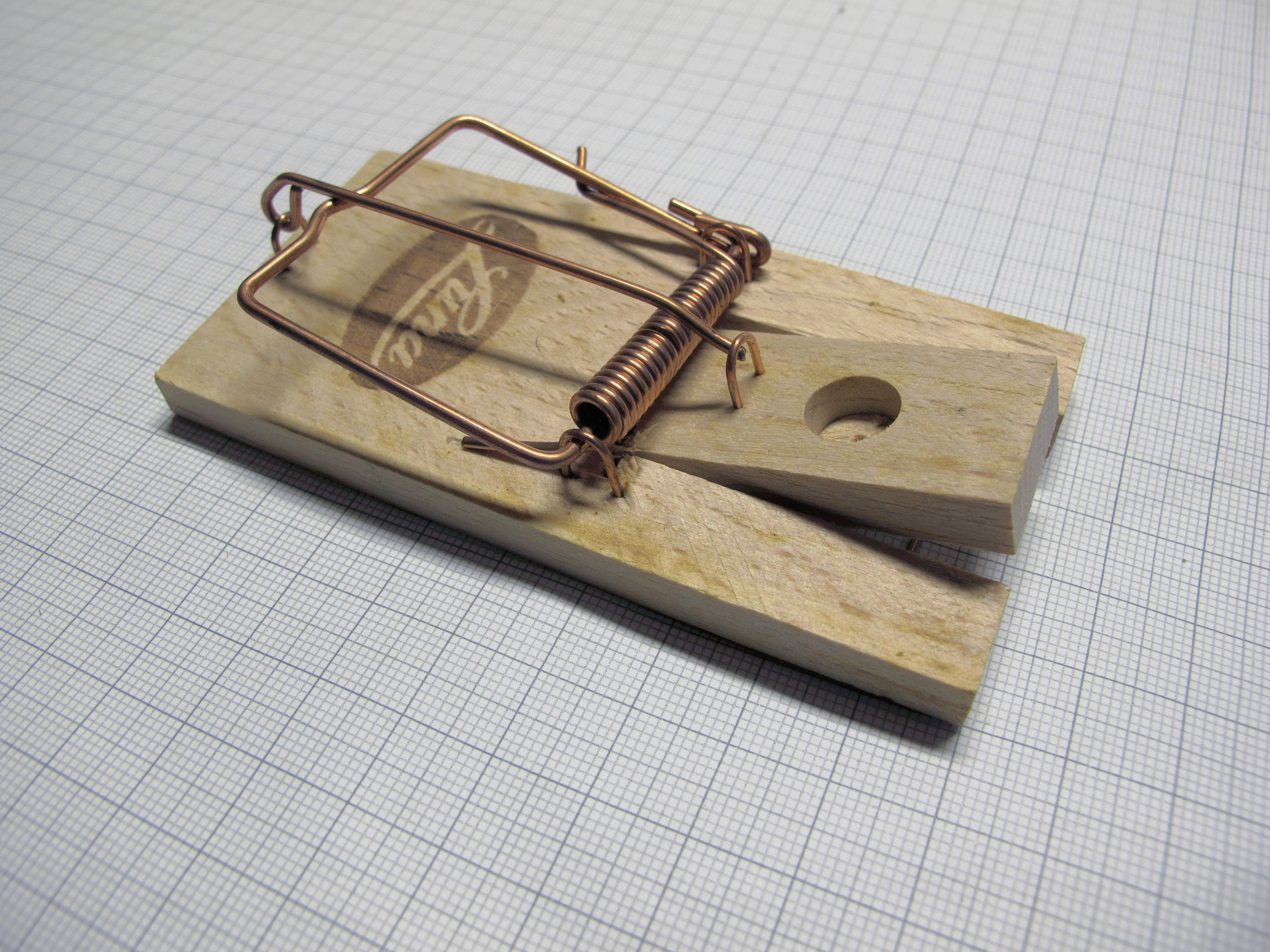 mousetraps